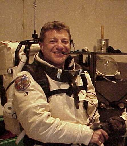 Vladimir Pletser in simulated EVA suit in the EVA Preparation room at the Mars Society's Flashline Mars Arctic research Station (FMARS) on Devon Island in July 2001.